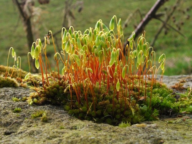 Capillary Thread-moss (Bryum capillare). This moss is well described in the book "British Mosses and Liverworts" (E.V.Watson, 1955); as its introductory comments for Bryum capillare state, "this is not only our most widespread species of Bryum but is indeed one of the most abundant British mosses. The dense tufts or wide cushions are notable for the corkscrew-like spiralling of the leaves when dry. When moist, fertile material is met with on some wall-top – a favourite habitat – the plants are conspicuous on account of their robust habit, broad leaves, and large drooping capsules". The capsules of the moss are shown here, borne on reddish stalks (setae), which, in this case, were about 2.5 cm high. These capsules are fairly young; when mature, they will become brownish in colour. The leaves are visible below, arranged in little whorls. (The reproductive strategies of mosses are summarized here: 1170910.) The specimen shown in my photograph is growing on top of a dry-stone wall; this species can also be found on soil, logs, trees, fences, and in many other habitats.